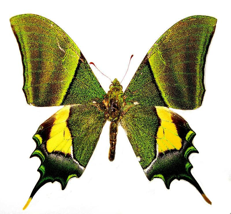 Teinopalpus imperialis male - top view